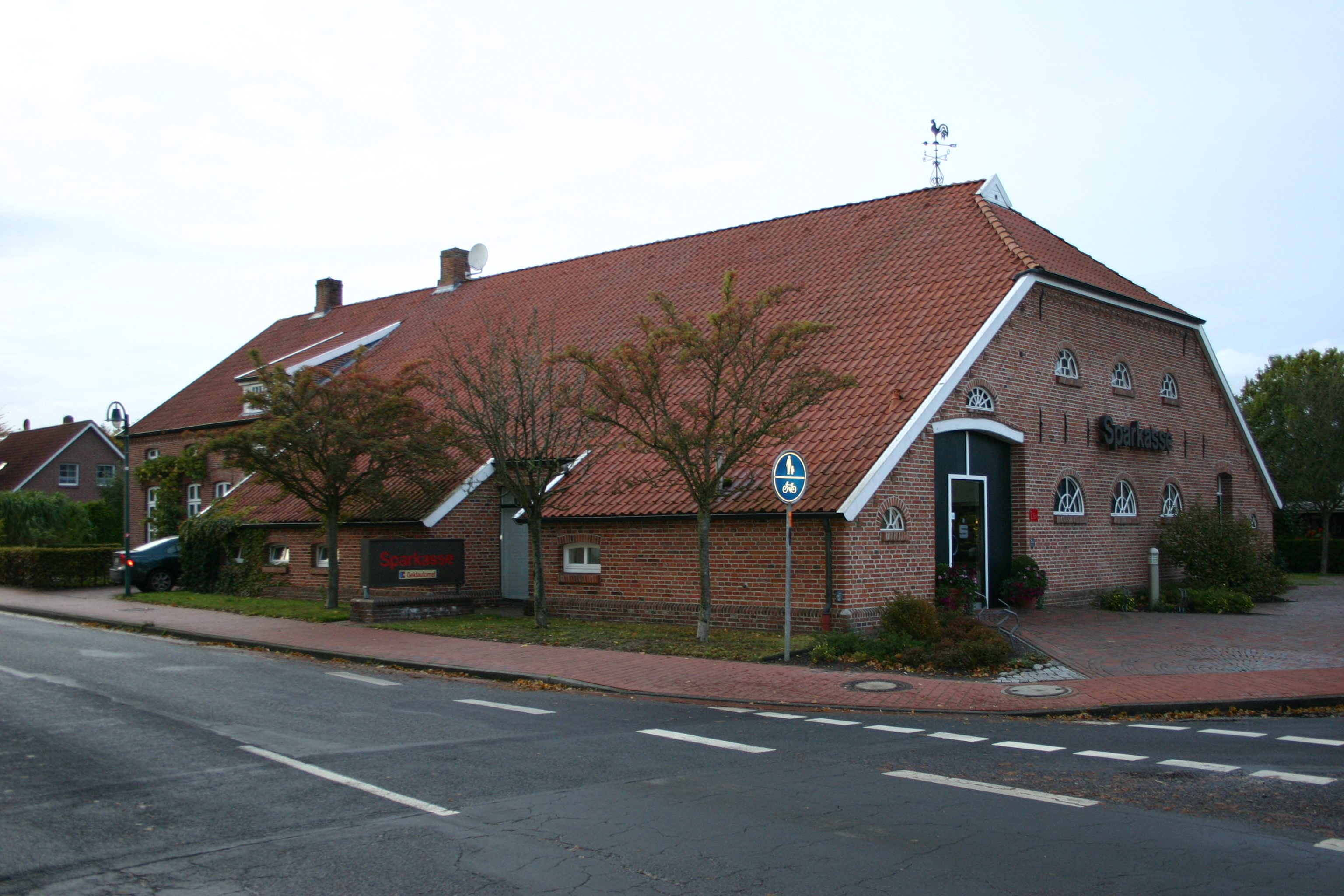 New function for an old Gulf farmhouse: In Hollen in the municipality of Uplengen, the building is being used by a local bank. Lower Saxony, Germany